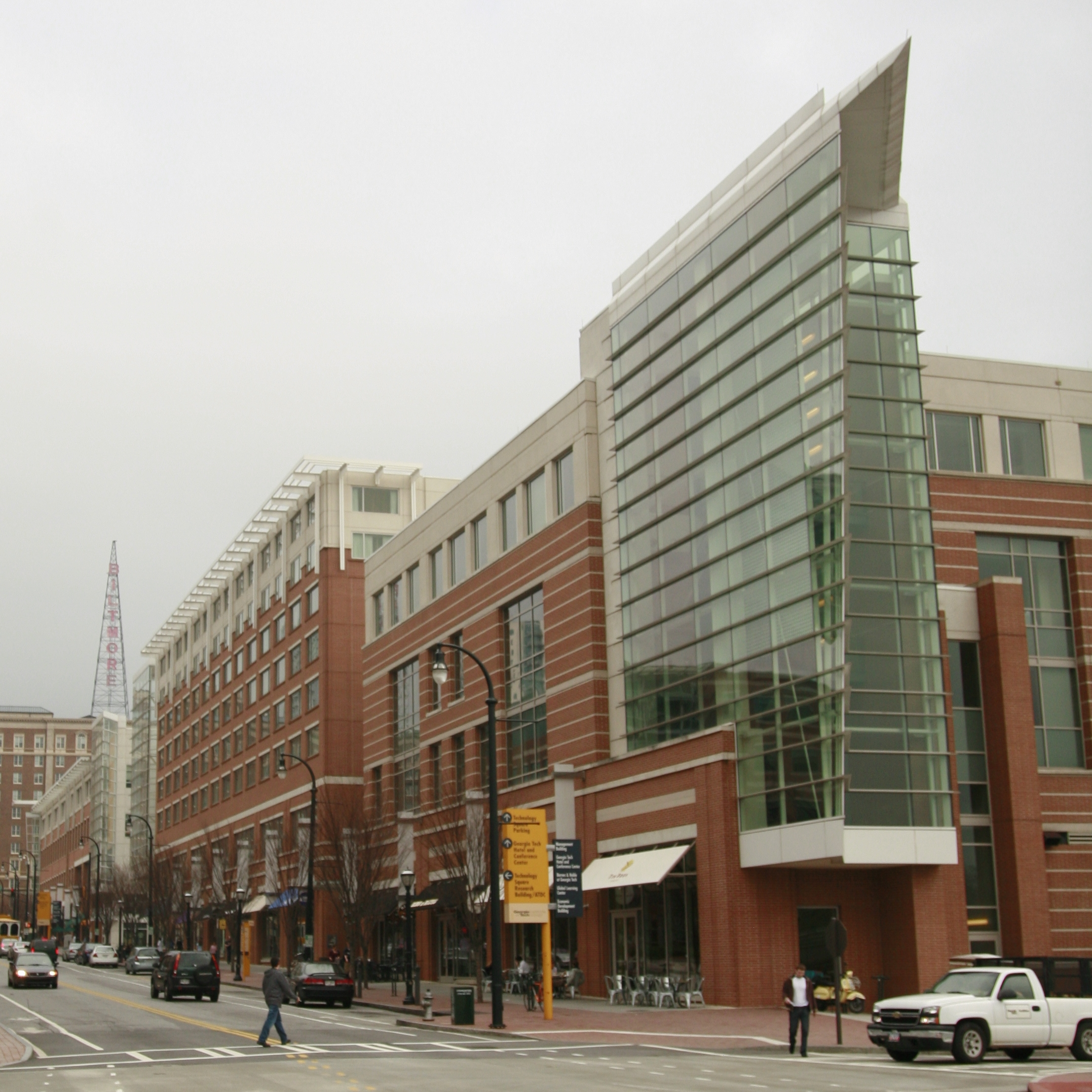 Fifth street side of Technology Square